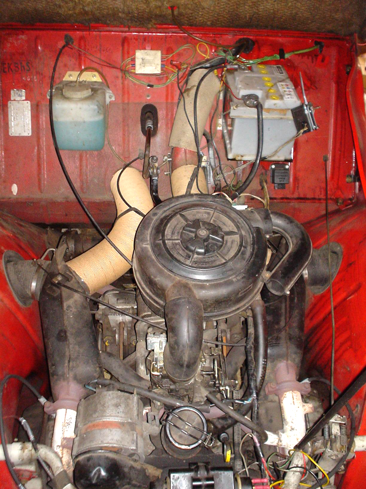 1989 2CV6 under the hood